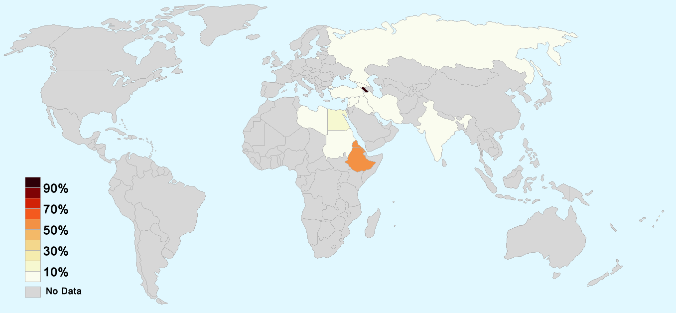 Oriental Orthodoxy around the world.